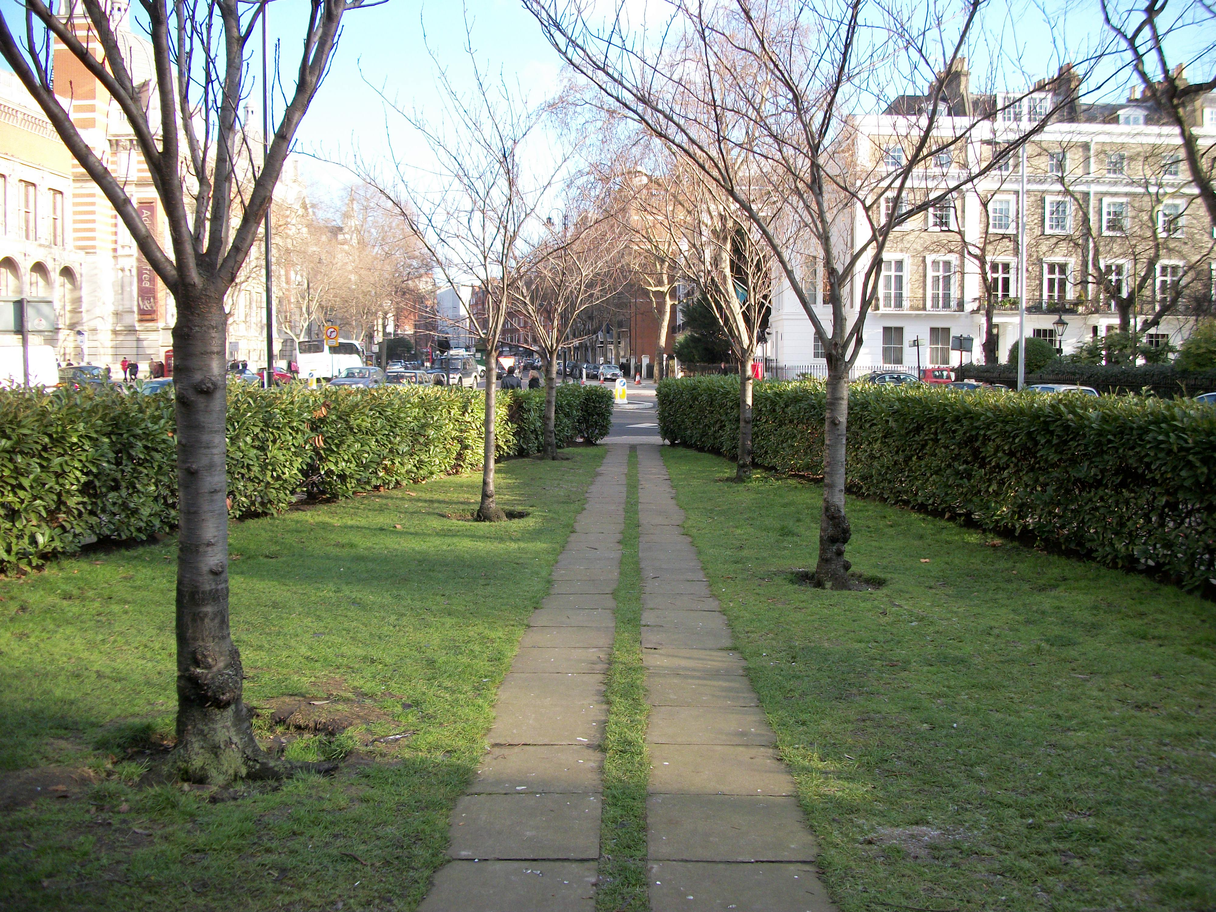 Gardens at junction of Thurloe Place and Cromwell Gardens